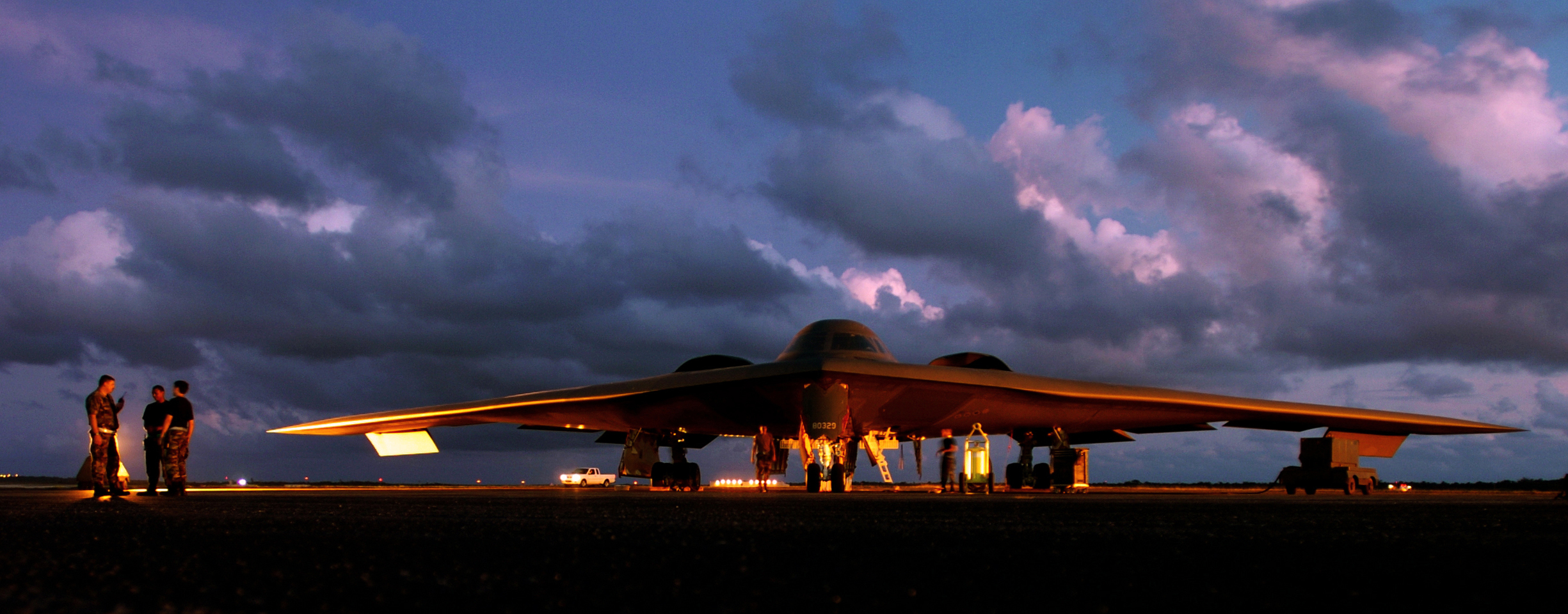 ANDERSEN AIR FORCE BASE, Guam -- Aircraft mechanics prepare a B-2 Spirit bomber before a morning mission here. Bomber aircraft have had an ongoing presence on the island since February 2004. The Airmen are deployed from the 509th Bomb Wing at Whiteman Air Force Base, Mo. (U.S. Air Force photo by Master Sgt. Val Gempis)